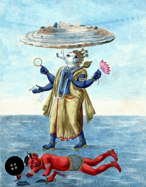 Sri Varaha Avatara. Patna. 1800s.